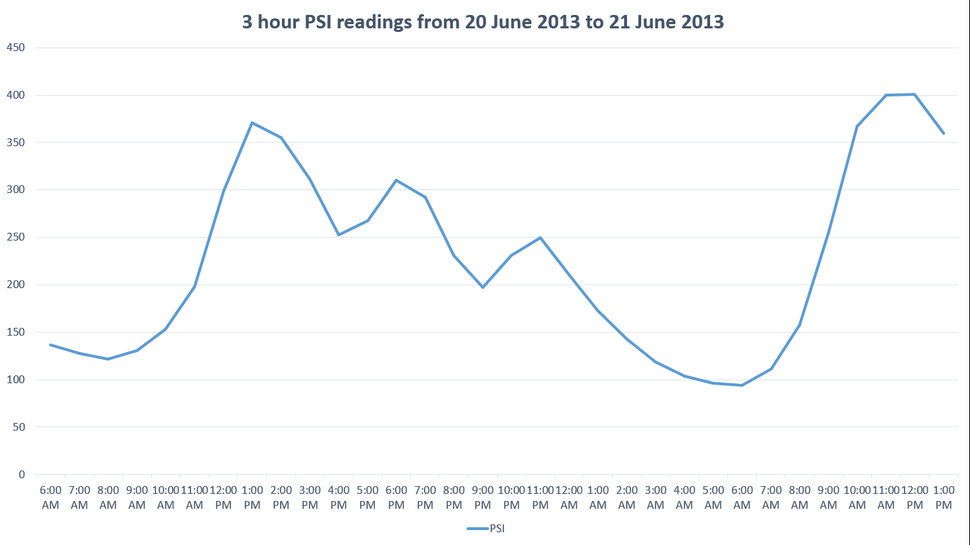 The three-hour PSI (Pollutant Standards Index) readings in Singapore from 20 to 21 June 2013. At 1:00 pm on 20 June 2013, the PSI level reached a record level of 371, at the highest "hazardous" range.